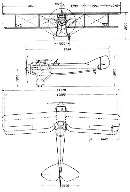 SPAD XI French World War 1 two seat reconnaissance aircraft